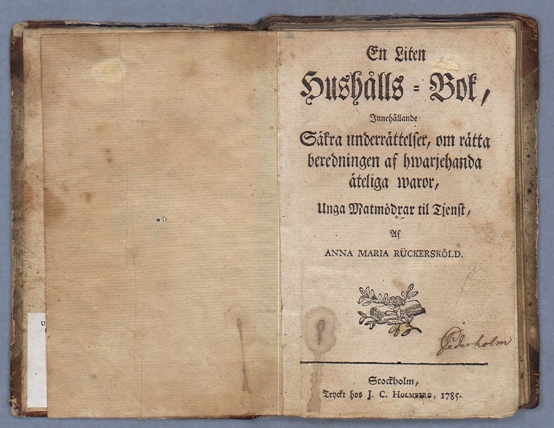 Title page of Swedish cookbook by Anna Maria Rückerschöld published in 1785, "En liten hushålls-bok" ("A small household book").